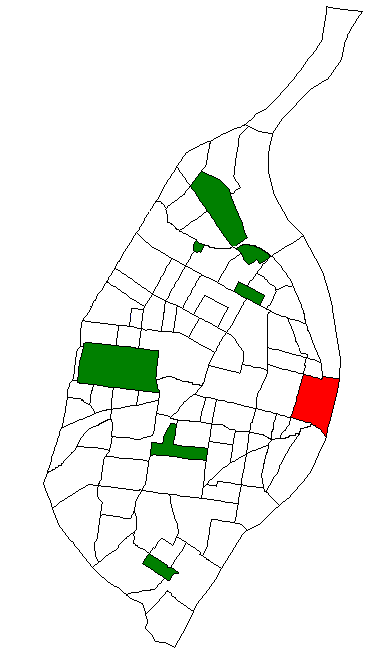 Map of St. Louis Neighborhood #35 (Downtown)